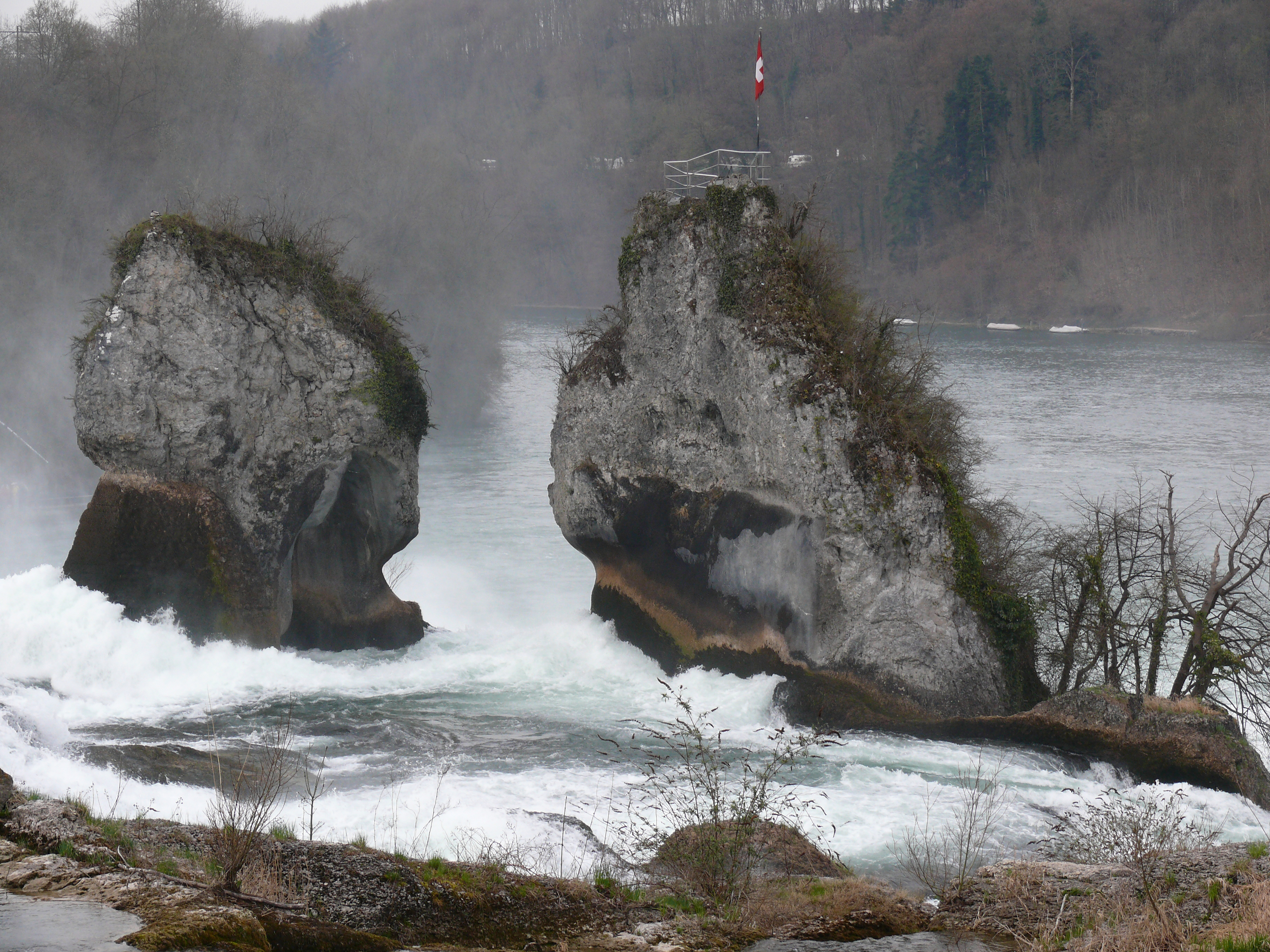 The Rheinfall (Rhine Falls) were formed in the last ice age, approximately 14,000 to 17,000 years ago, by erosion- resistant rocks narrowing the riverbed. The first glacial advances created today's landforms approximately 500,000 years ago. The Rheinfallfelsen, a large rock, is the remnant of the original limestone cliff flanking the former channel. The rock has eroded very little over the years because not too much sediment comes down the Rhine from Lake Constance.